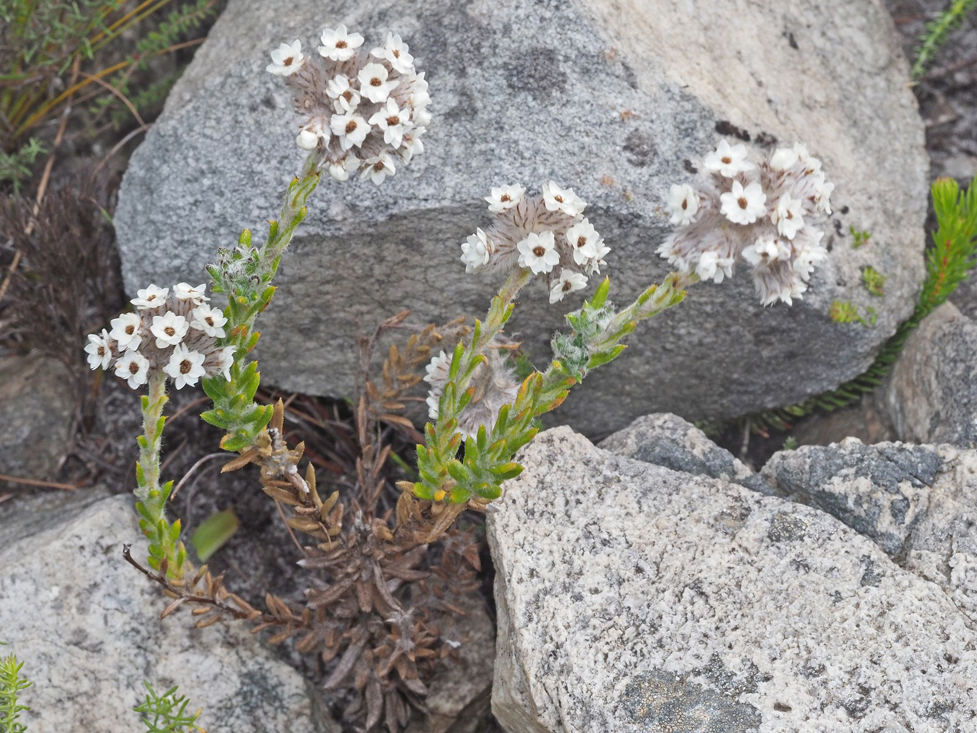 Anaxeton hirusutum observed in South Africa